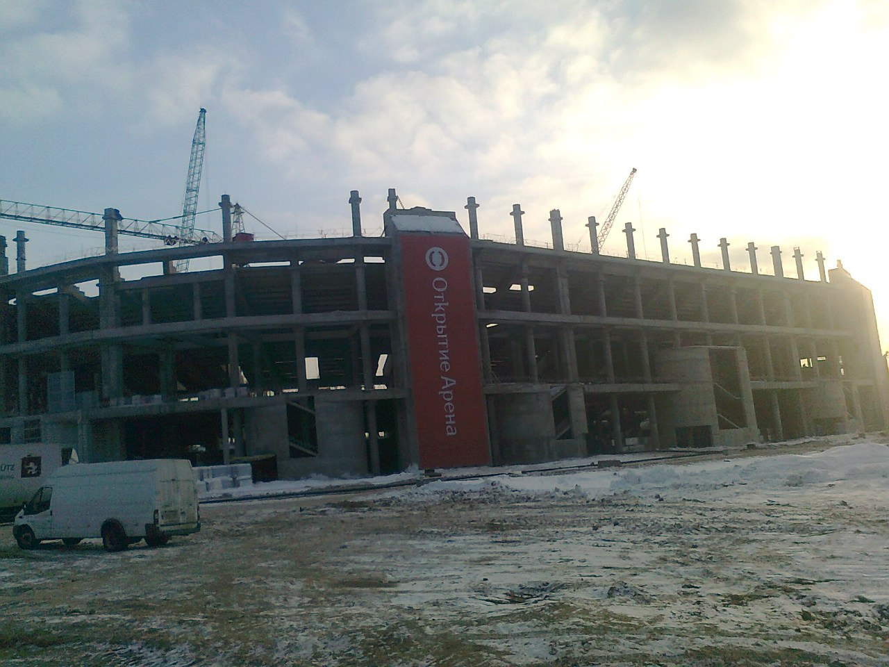 Otkrytiye Arena (Spartak) in Moscow is being constructed. February 2013. Capacity - 44 000. To be open in 2014